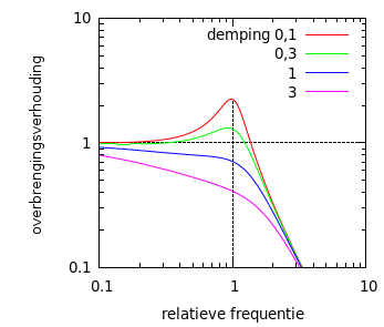 damped mass spring system frequency response